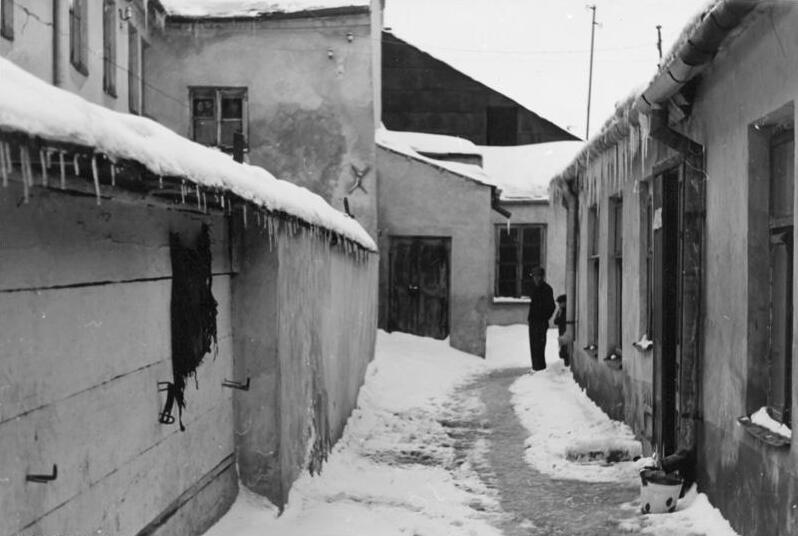 In the Jewish Quarter (later known as Ghetto Kielce) in Kielce, Poland, in the winter of 1939 to 1940, at the beginning of 1940.